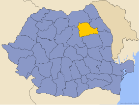 Location of Neamț County in Romania.